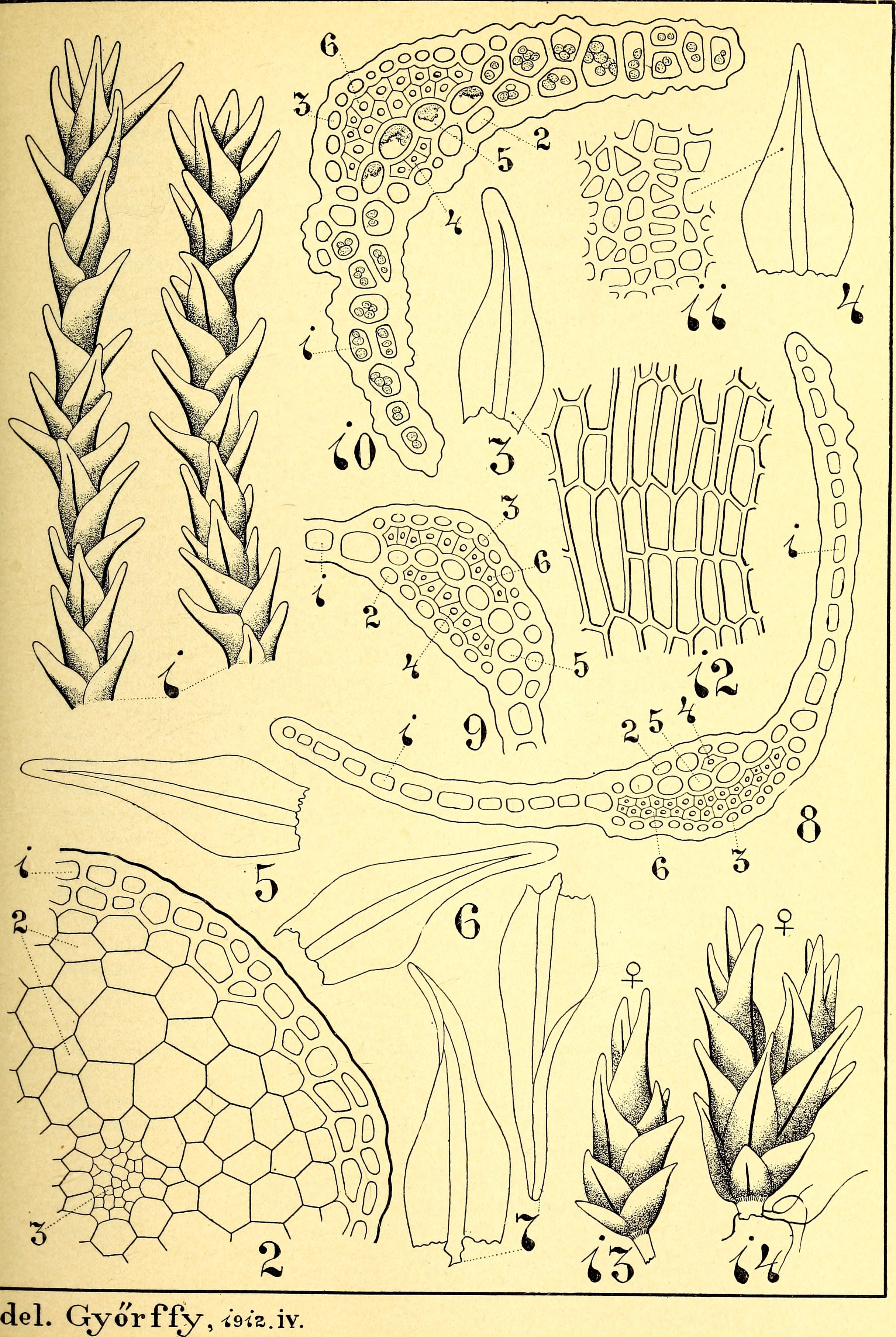 Title: The Bryologist Year: 1898 (1890s) Authors: Grout, A. J. (Abel Joel), b. 1867; Smith, Annie Morrill; Jennings, Otto Emery, 1877-; American Bryological and Lichenological Society; American Bryological Society Subjects: Mosses; Liverworts; Lichens; Botany; Bryology Publisher: St. Louis, Mo. (etc. ) American Bryological and Lichenological Society Text Appearing Before Image: ' Text Appearing After Image: PLATE III.